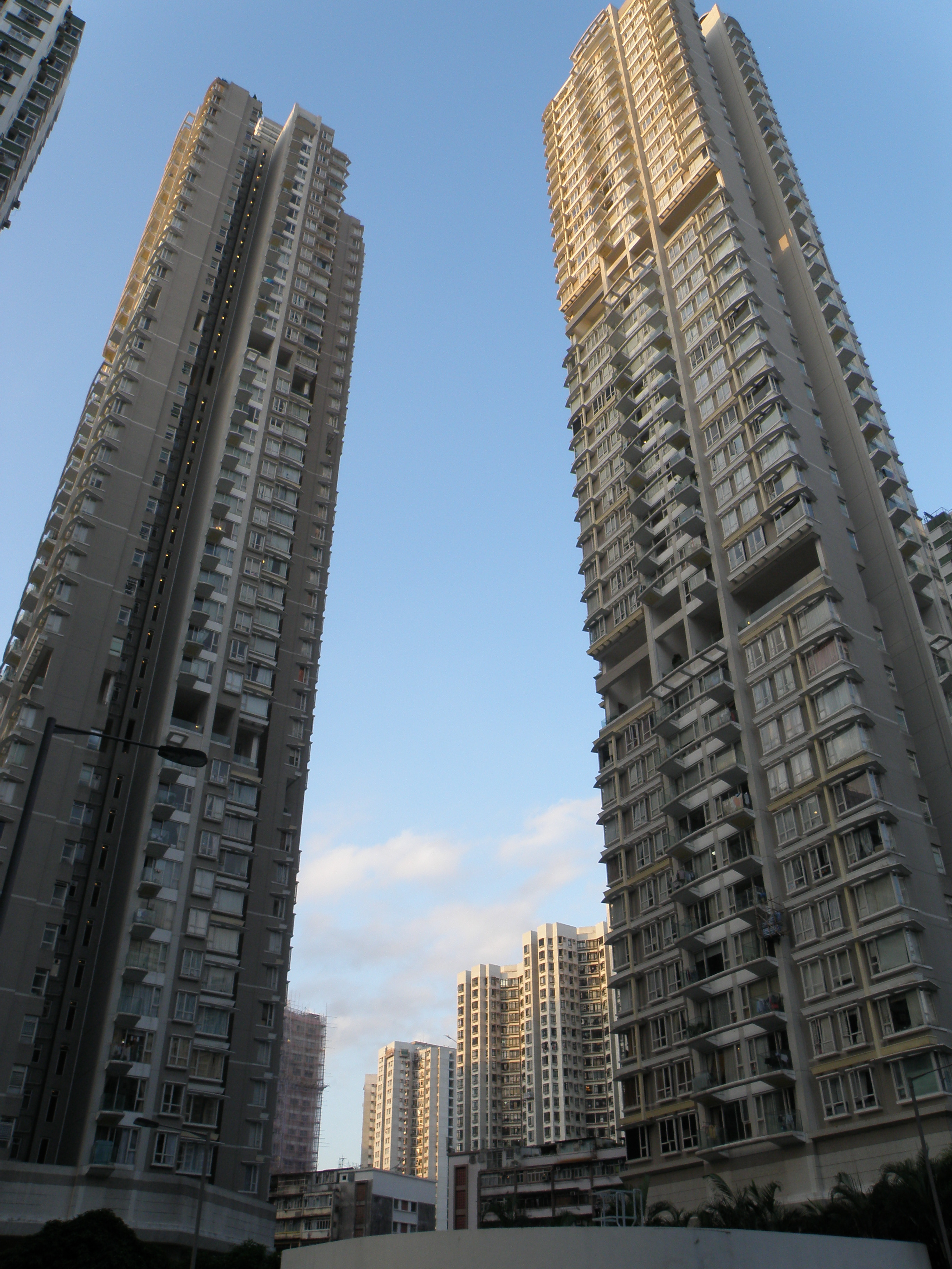 The Orchards in Kornhill, Hong Kong.